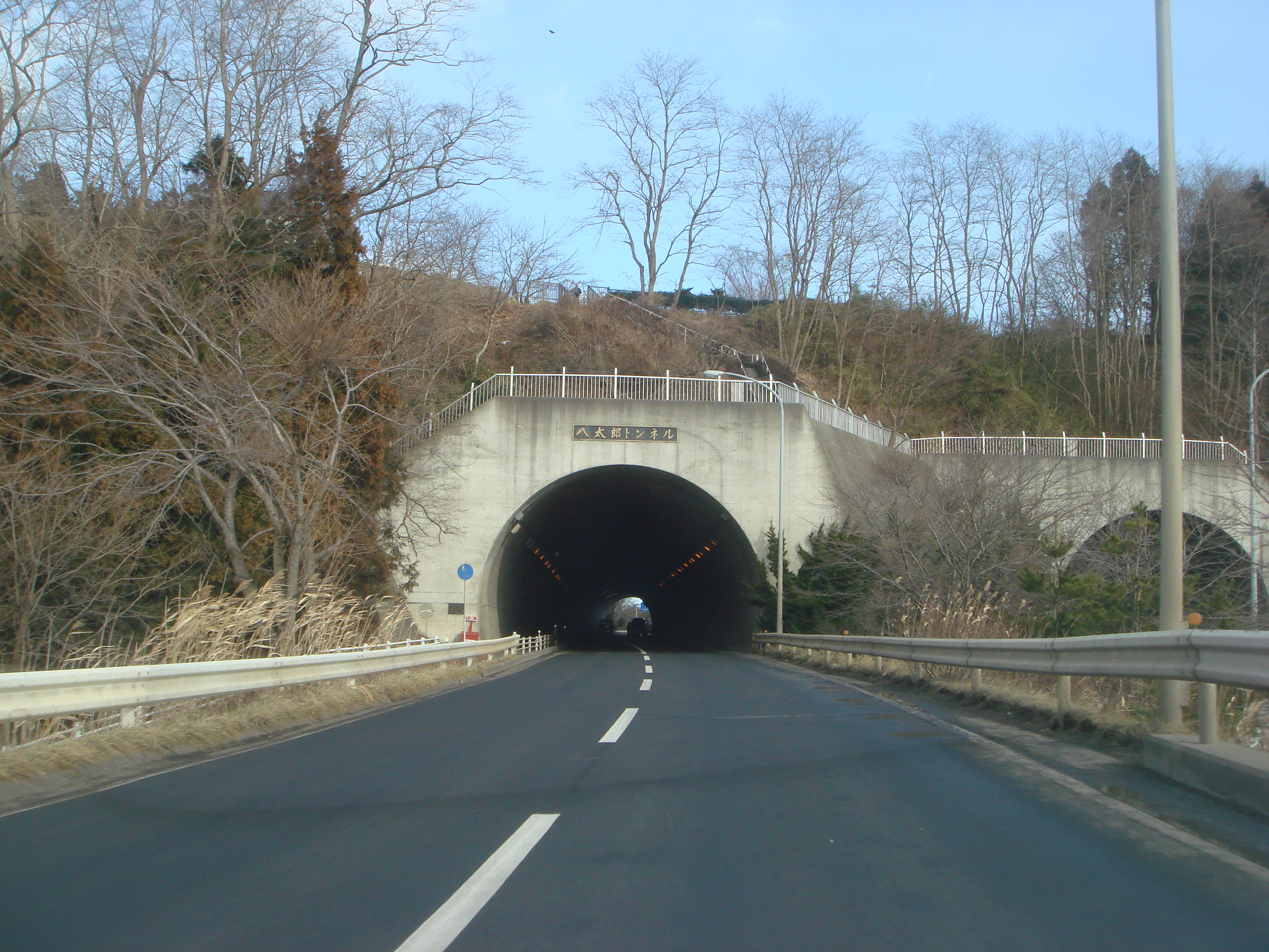 Hattaro Tunnel is Tunnel in Hachinohe Aomori,Japan